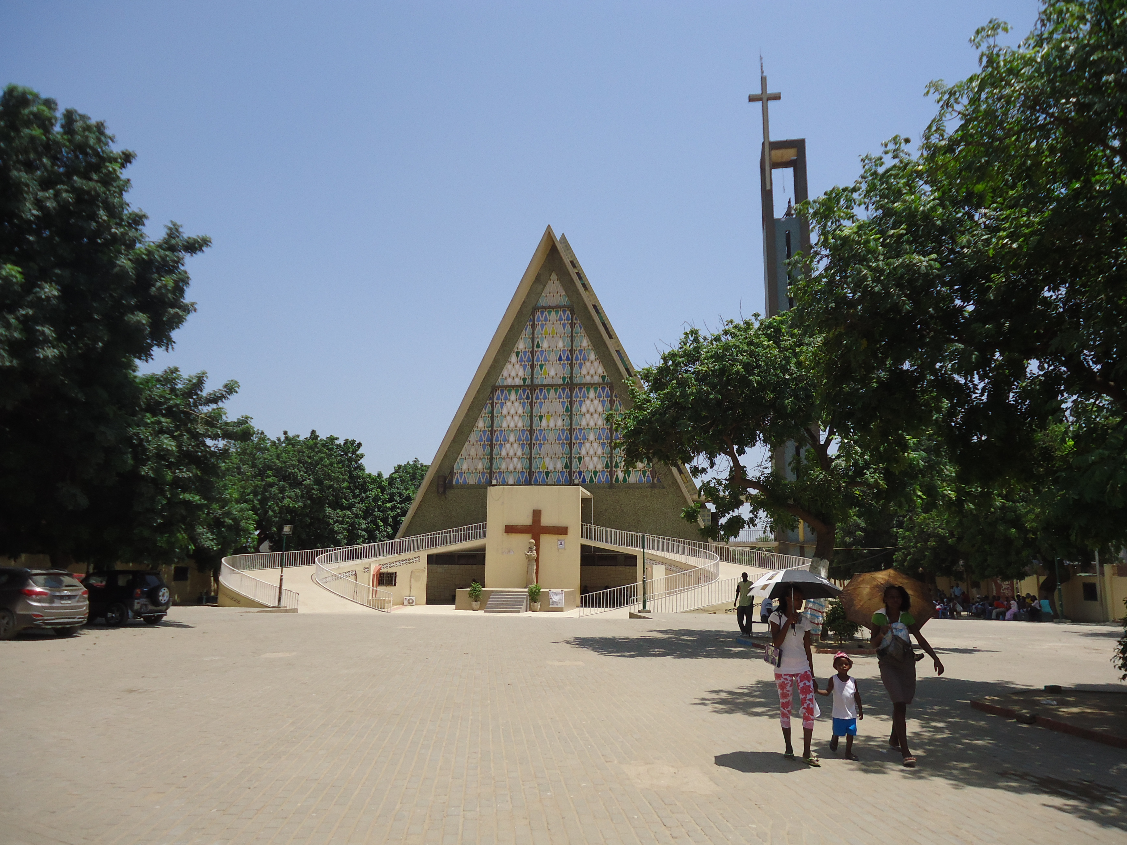 Streets and buildings of Luanda. Photo by Fabio Vanin, Luanda, 2013.